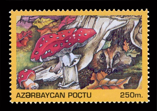 Stamp of Azerbaijan